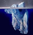 Wikisource logo. Cropped by User:Brion VIBBER from :File:Iceberg.jpg by Uwe Kils. There are no disclaimers.